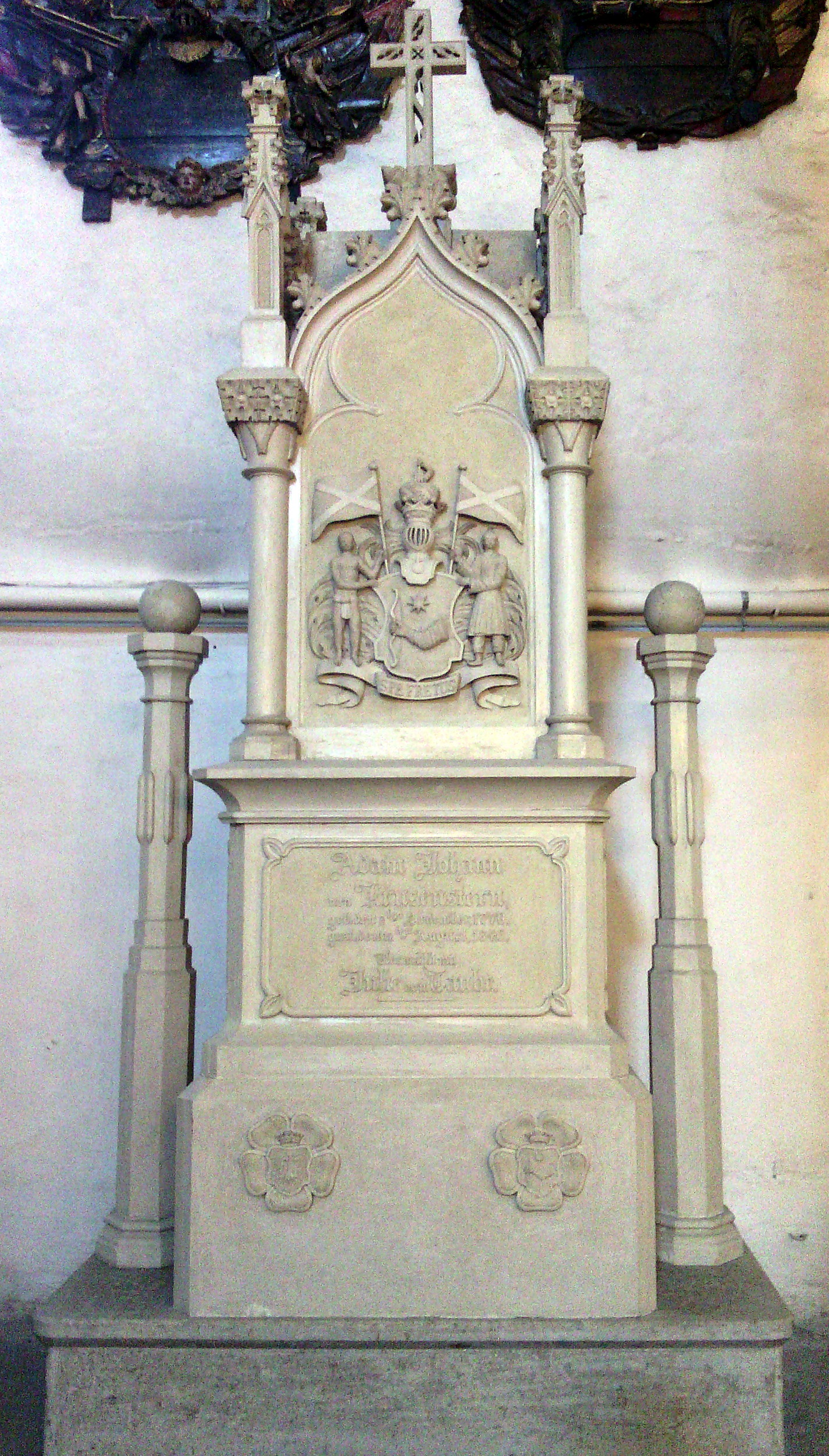 Grave of Adam Johann von Krusenstern